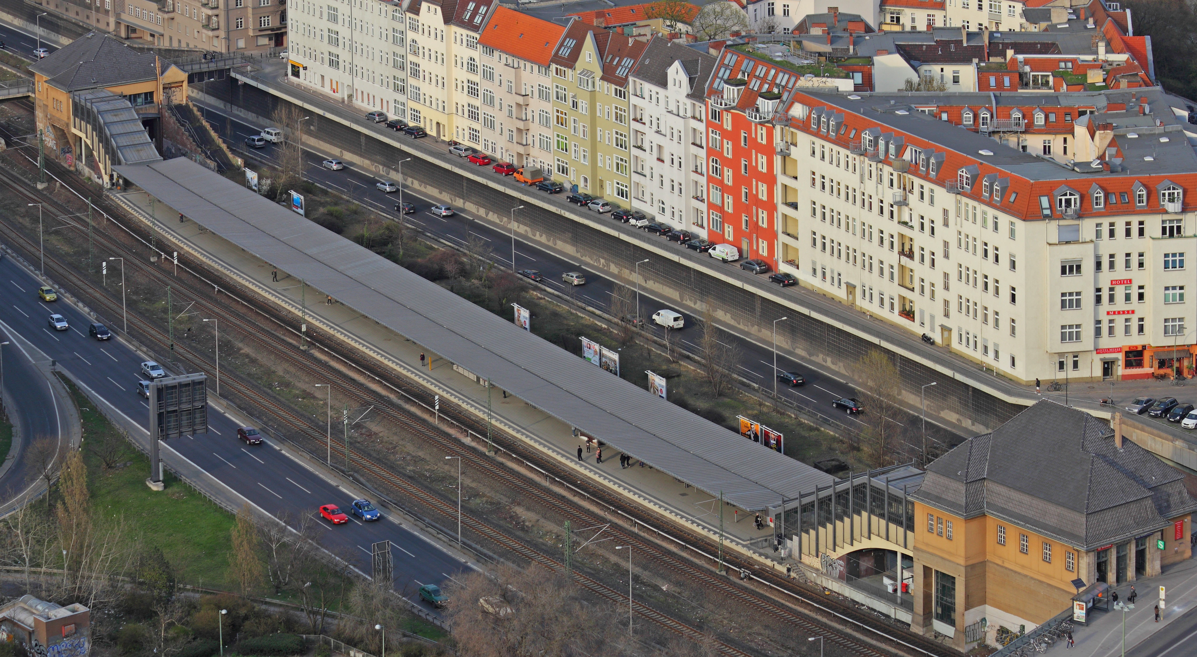 Berlin views from Radio Tower at the Trade Fair.